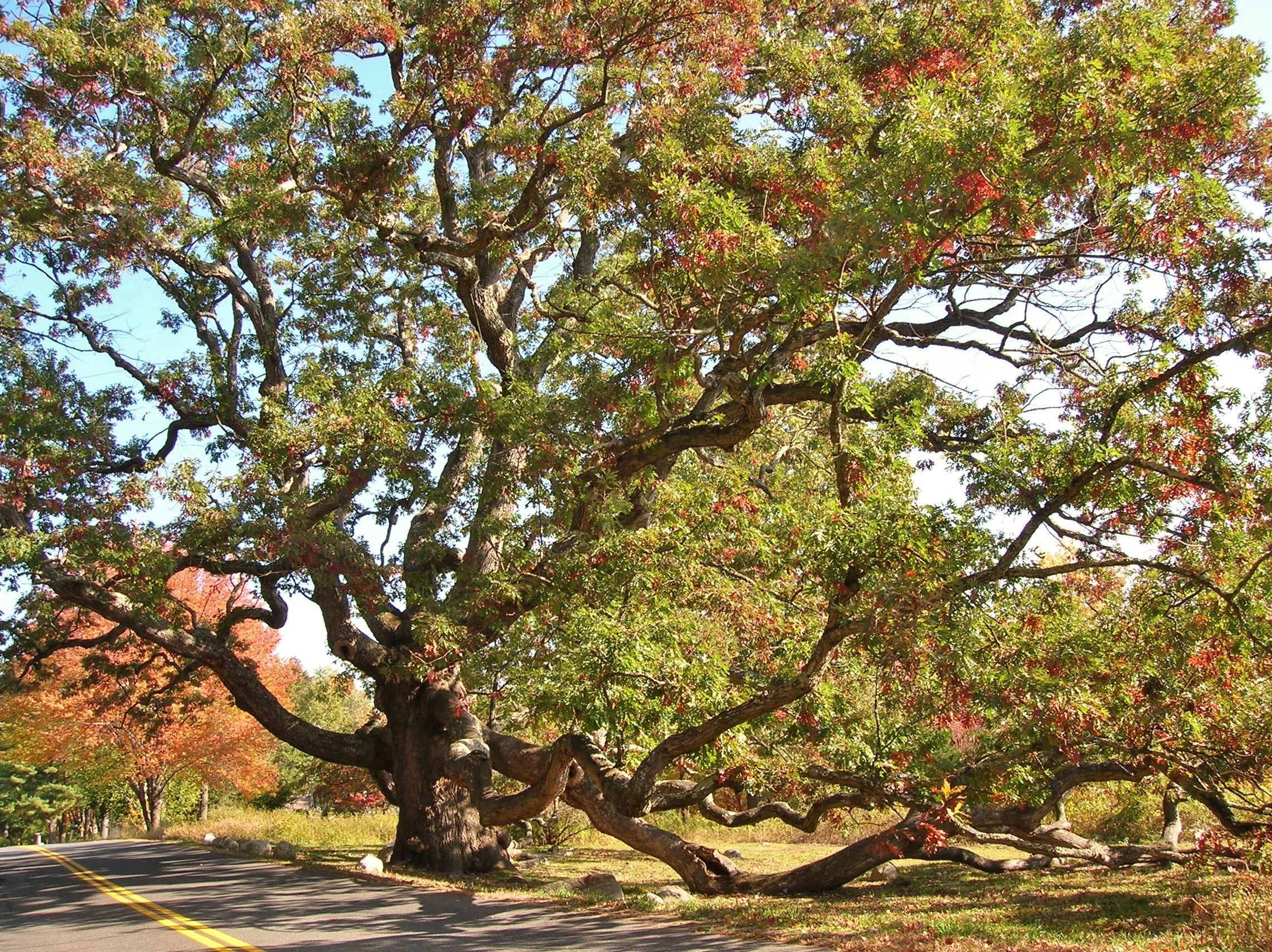 A white oak tree located in Granby, Connecticut, which is known as the "Dewey Oak." Photo taken 10/17/2010.